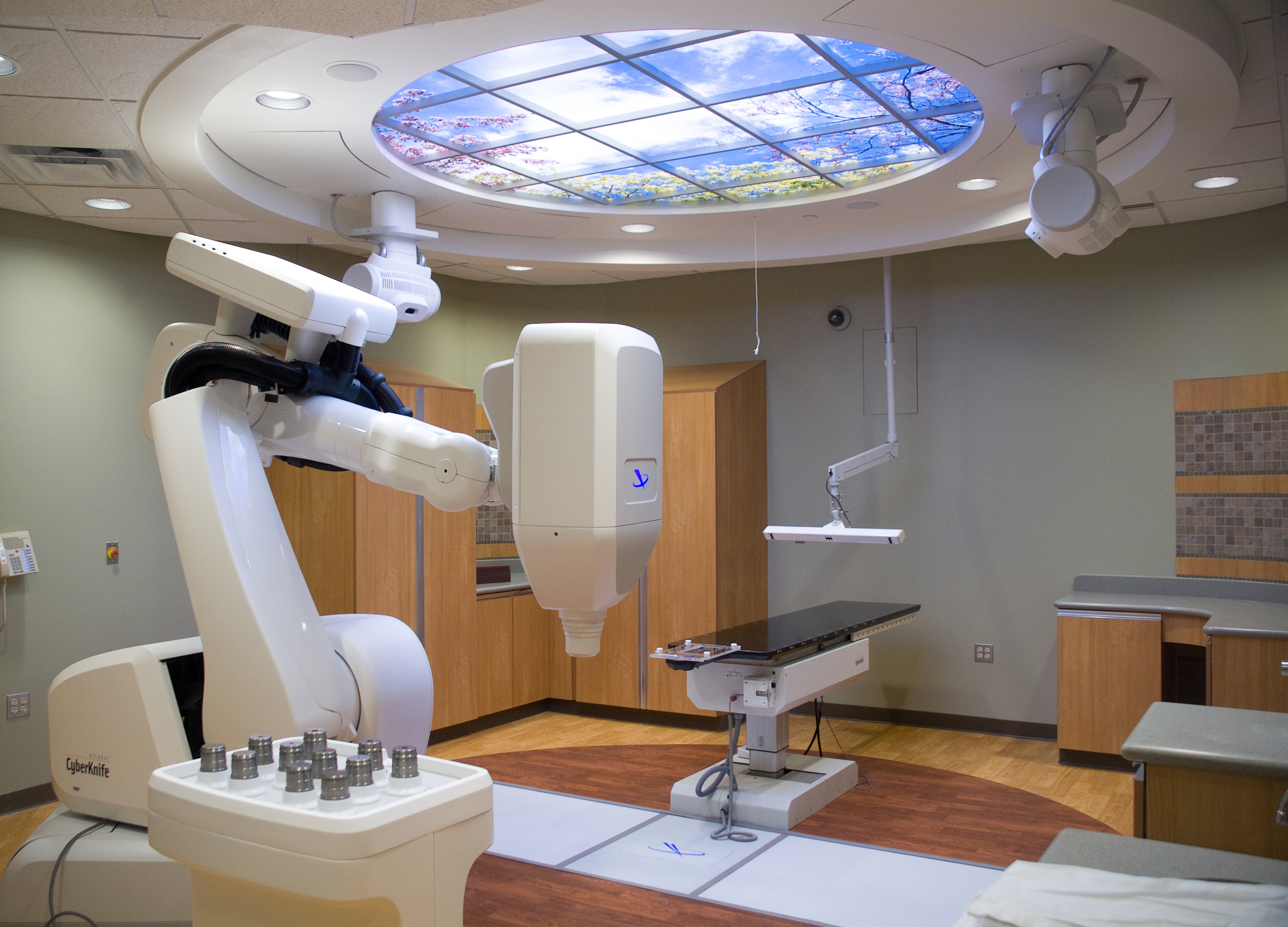 Robotic CyberKnife at St. Mary's Of Michigan